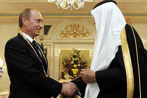 RIYADH. King of Saudi Arabia Abdullah bin Abdul Aziz Al Saud awarded Mr Putin the Order of King Abdul Aziz – the highest decoration from the Kingdom.